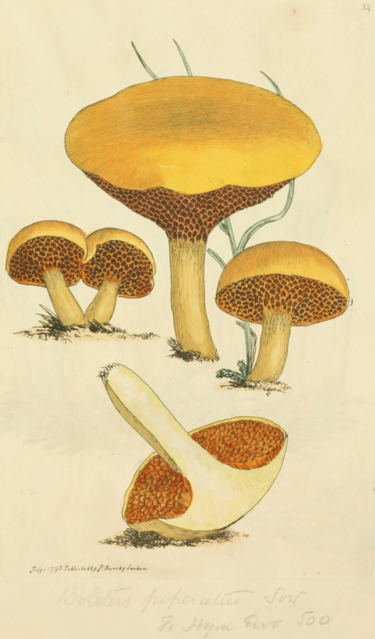 Coloured Figures of English Fungi or Mushrooms, plate 34, Chalciporus piperatus